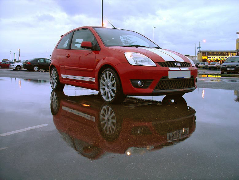 2005 European Ford Fiesta ST - Ford Fiesta XR4 in Australia.